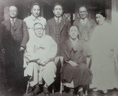 Established at Dankook University photos(1947.11.3)(Venue: Seoul Jongro Nakwon 282 Street)